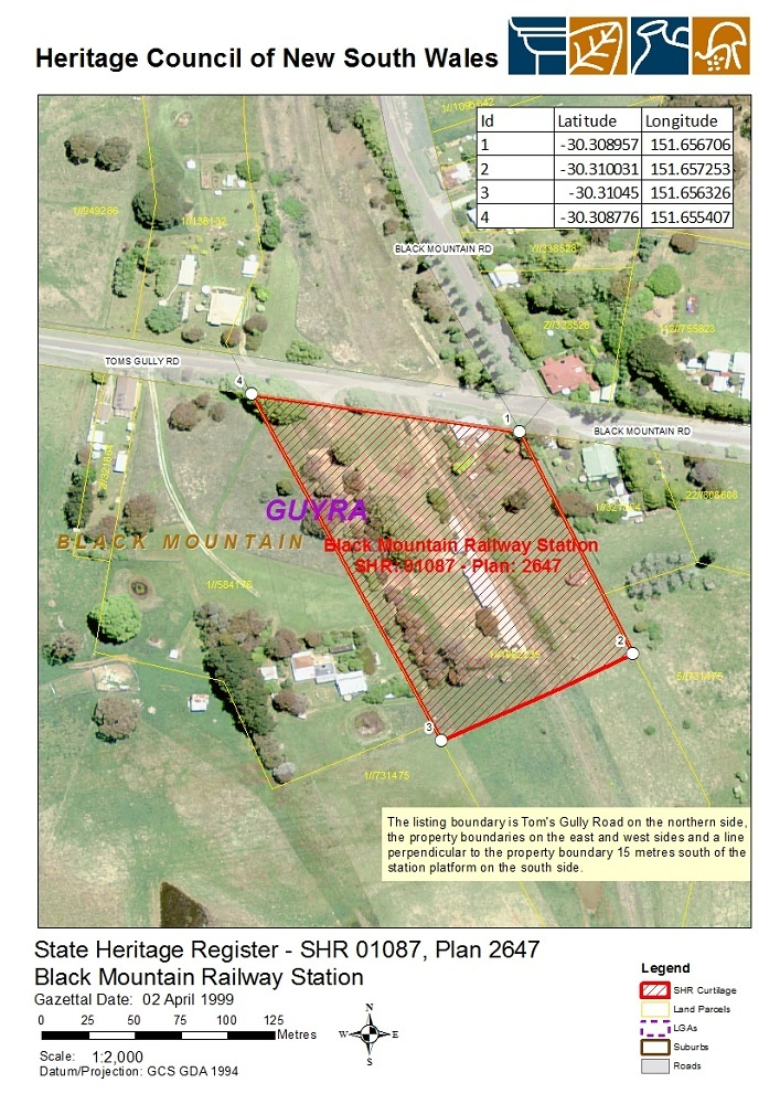 Black Mountain railway station: SHR Plan No 2647